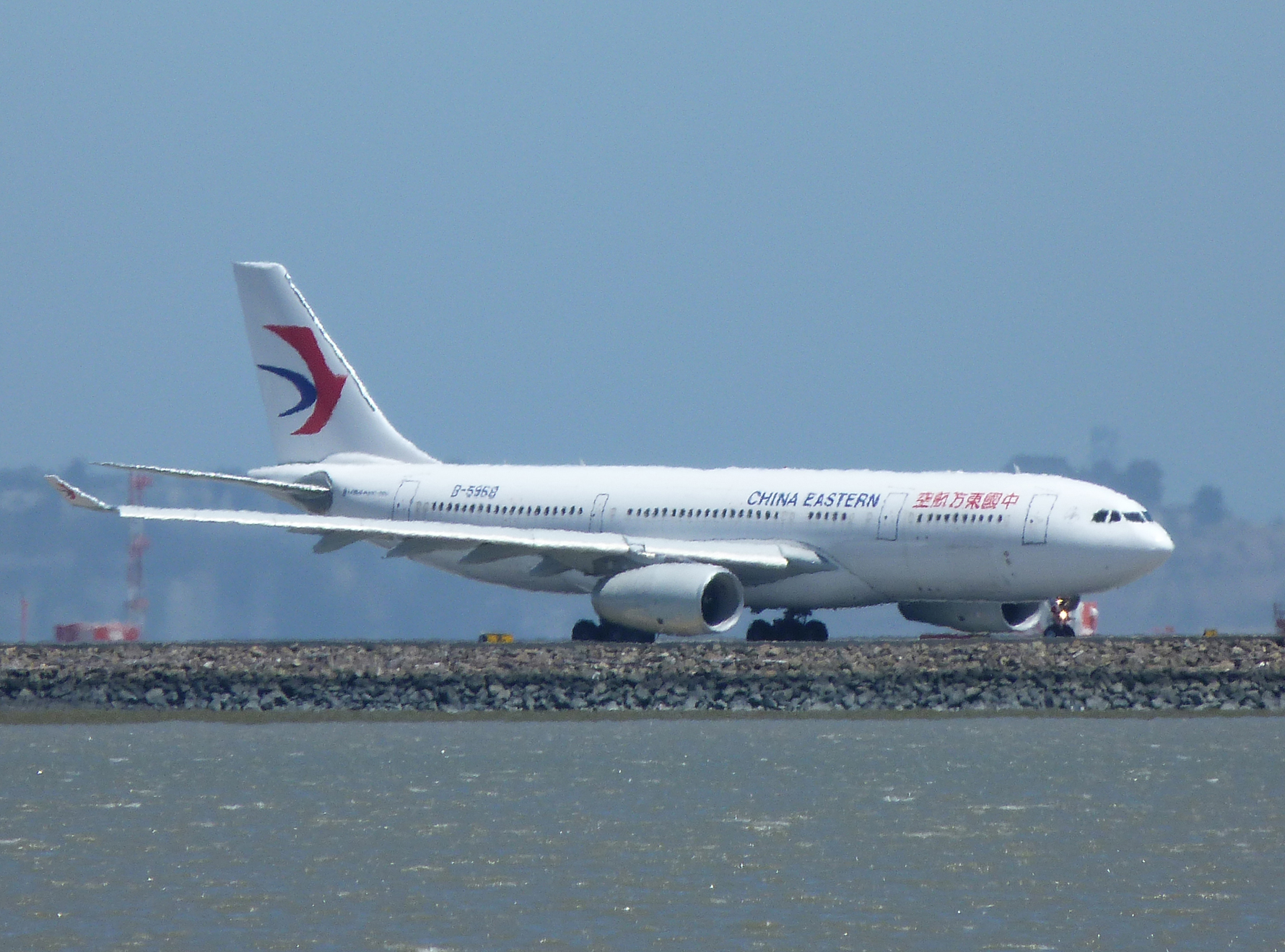 ChinaEastern 61915